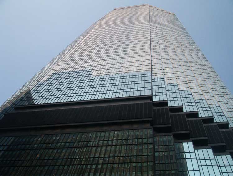 The IDS Tower